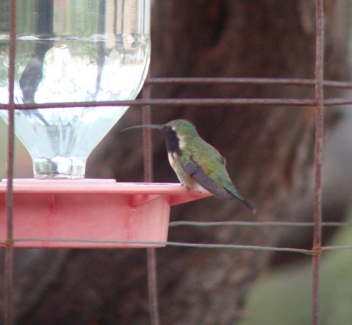 Lucifer Hummingbird Calothorax lucifer (male), Ash Canyon, Arizona